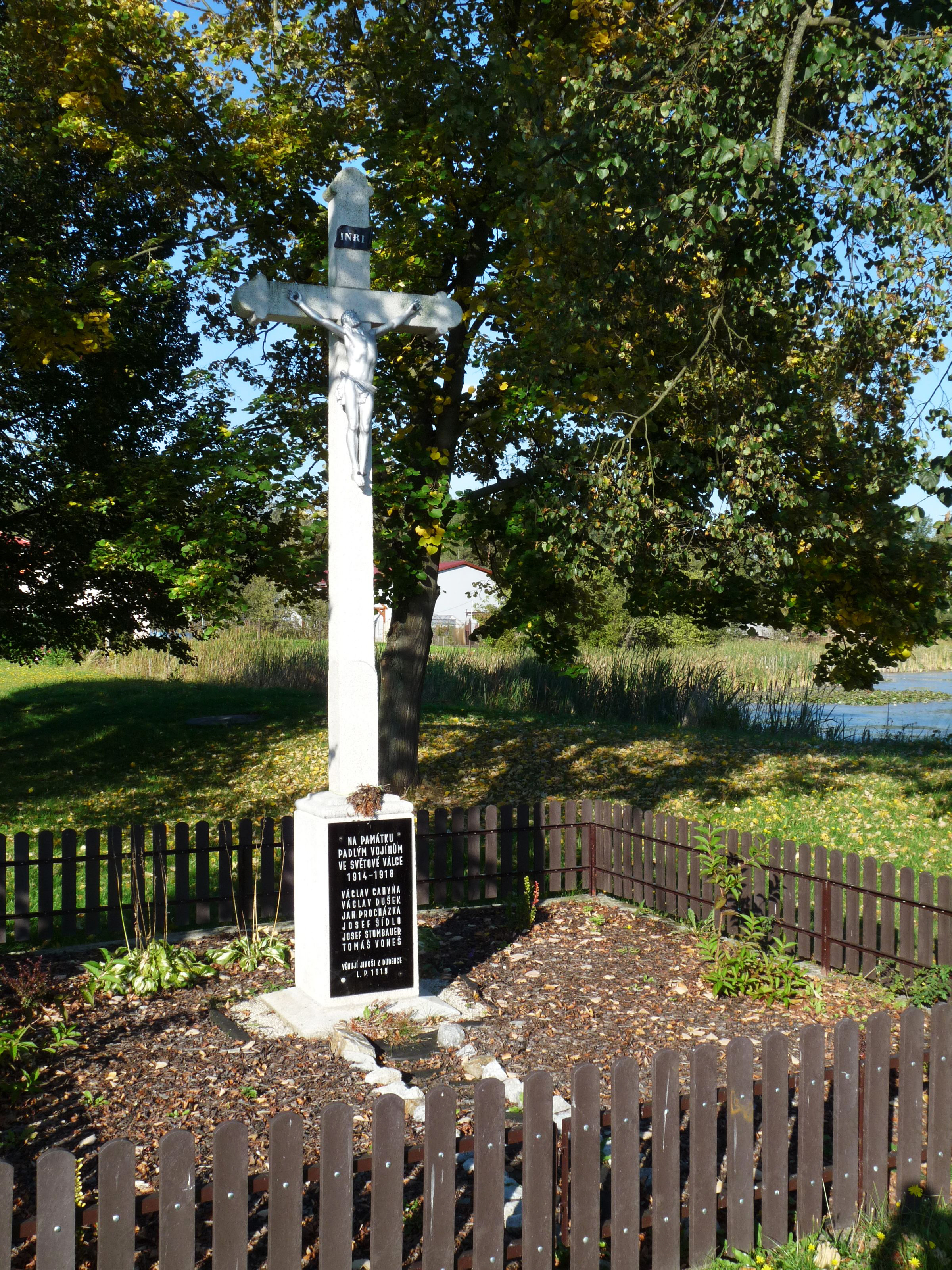 Memorial to those killed in World War I in the village of Dubenec, České Budějovice District, South Bohemian Region, Czech Republic (part of the municipality of Dívčice).